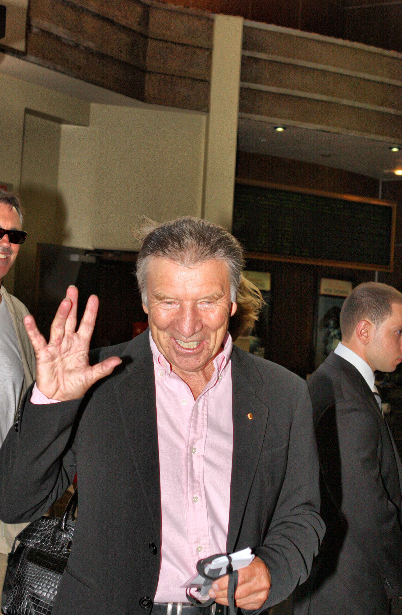 Don Spencer on the red carpet at the premiere of THE NEXT THREE DAYS, Hoyts Cinema Entertainment Quarter, Sydney